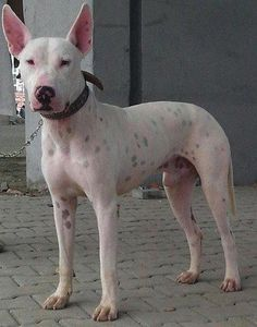 Picture took from the internet